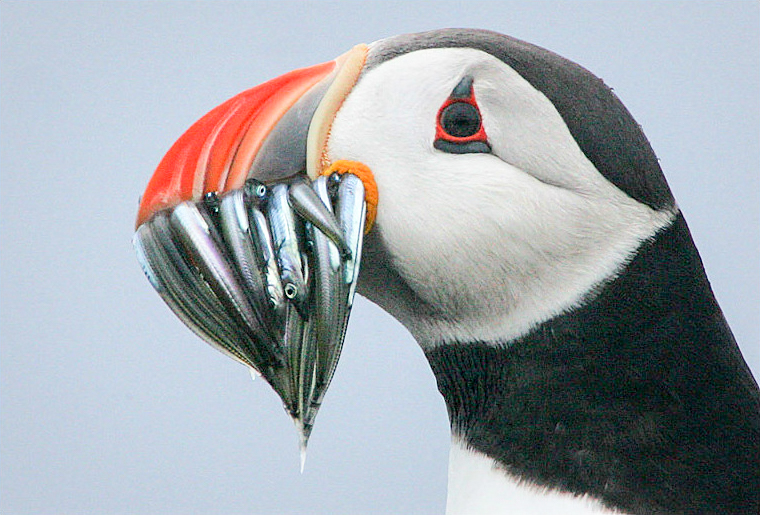 An adult returning with Sand-Eels to feed the single chick. Image taken on an a dull overcast day.